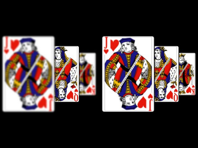 An example of Depth of Field, created by me in Inkscape. Cards from David Bellot's LGPL SVG playing cards. Left - Shallow DOF, right Wide DOF.